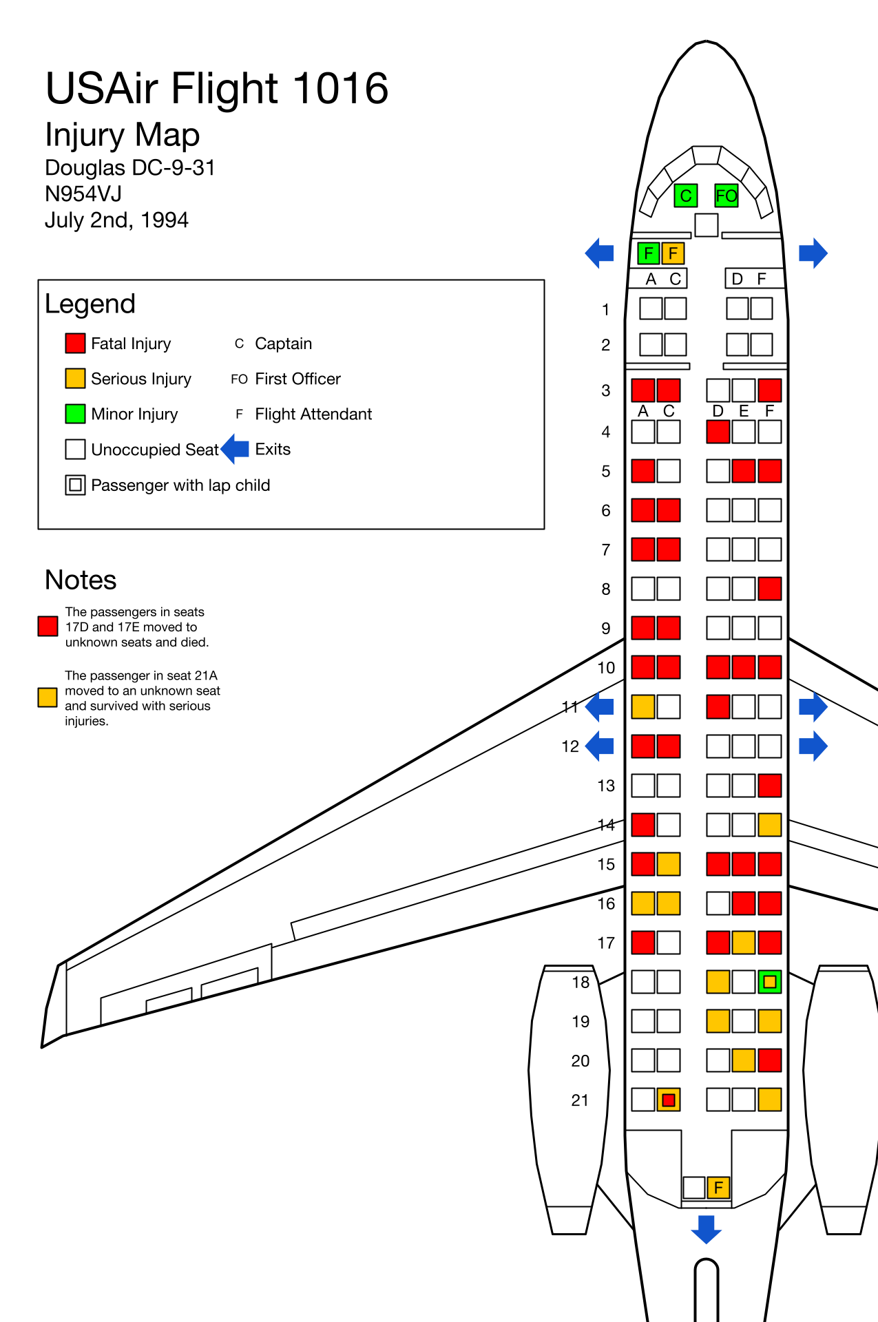 Seat plan of USAir Flight 1016, showing non-survivors and survivors based off of severity of injury.